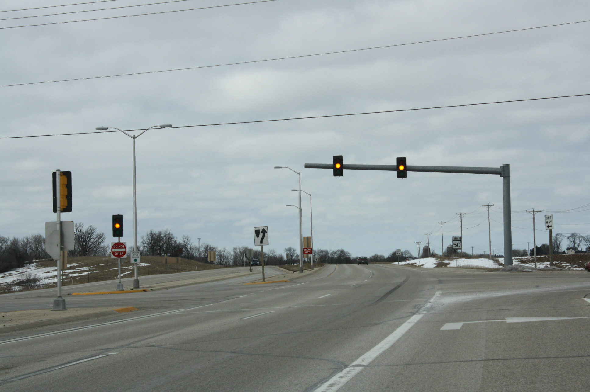 The four lane highway portion of Wisconsin Highway 50 at Slades Corners, Wisconsin.